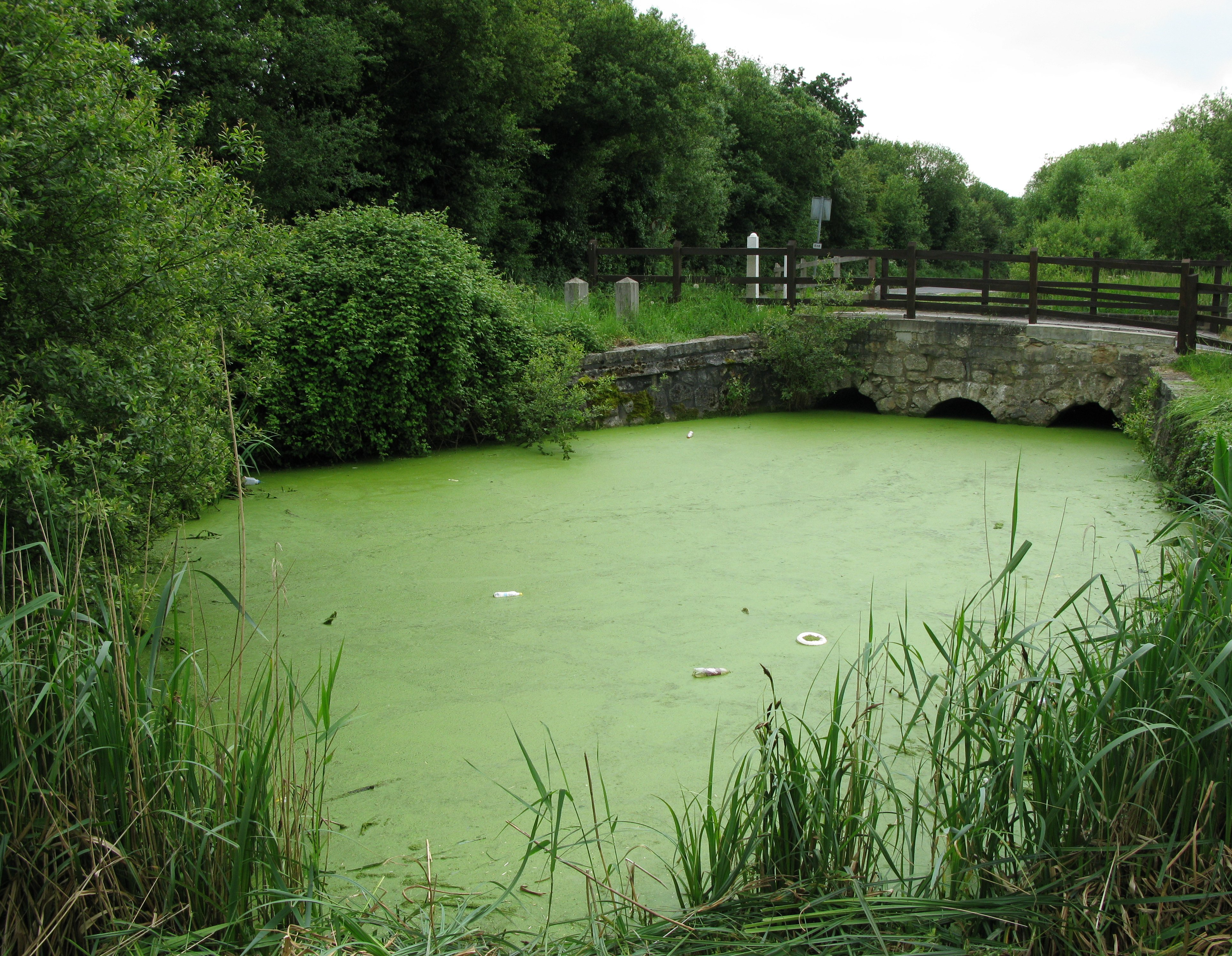 Photo of the site of the flash lock on Titchfield Canal